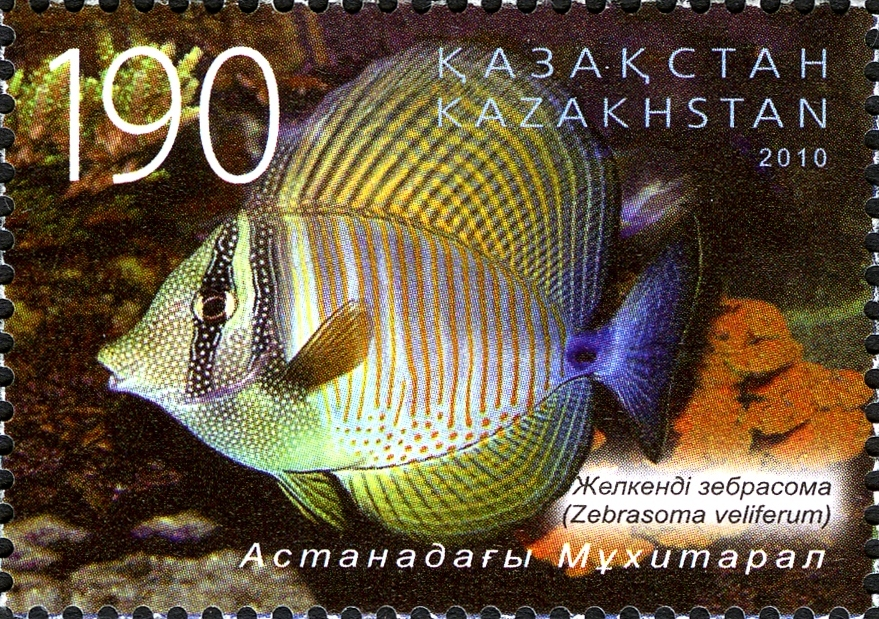 Stamps of Kazakhstan